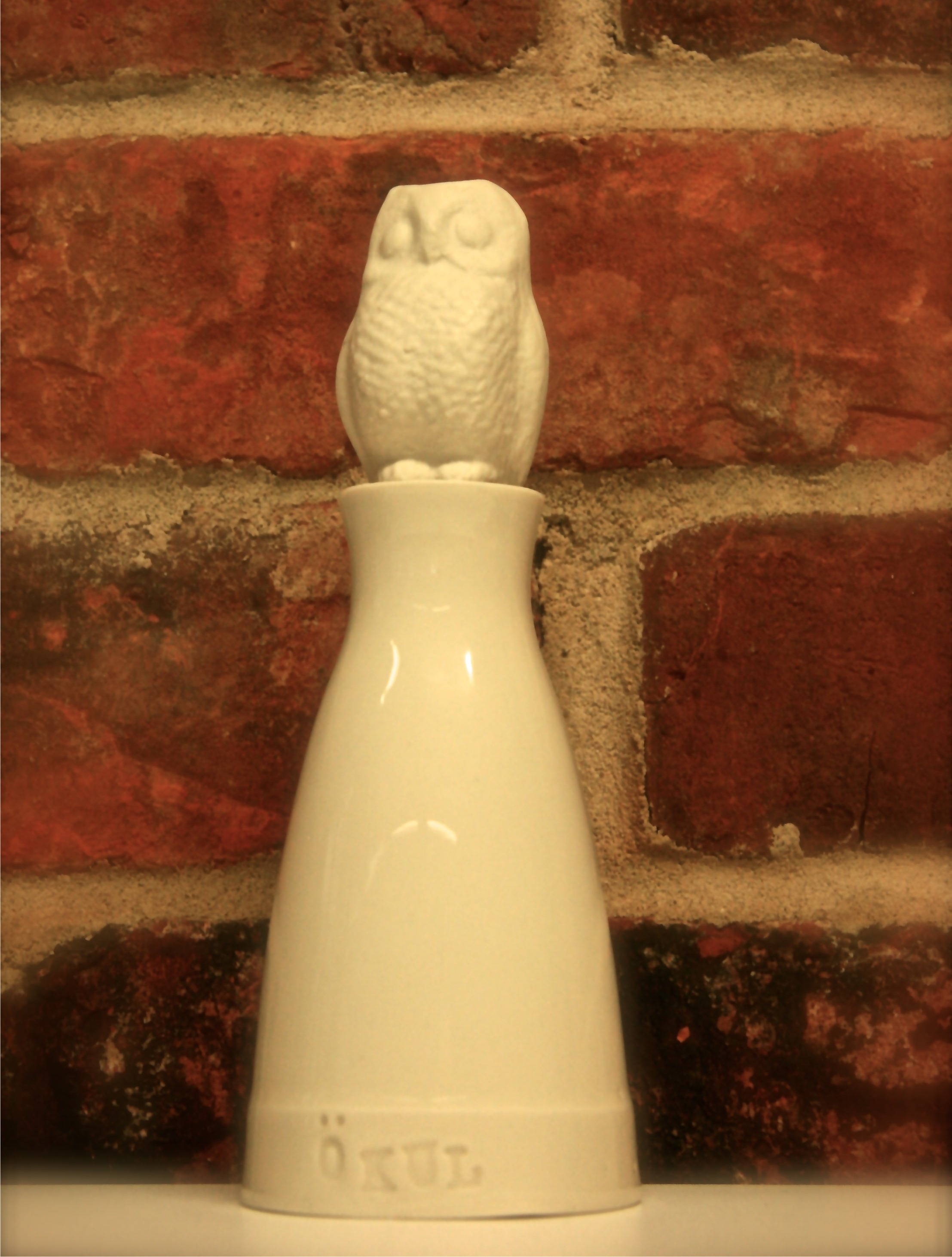 The Ökul statuette, awarded by the Estonian Society of Science Journalists annually to the most "press friendly scientist" in Estonia.